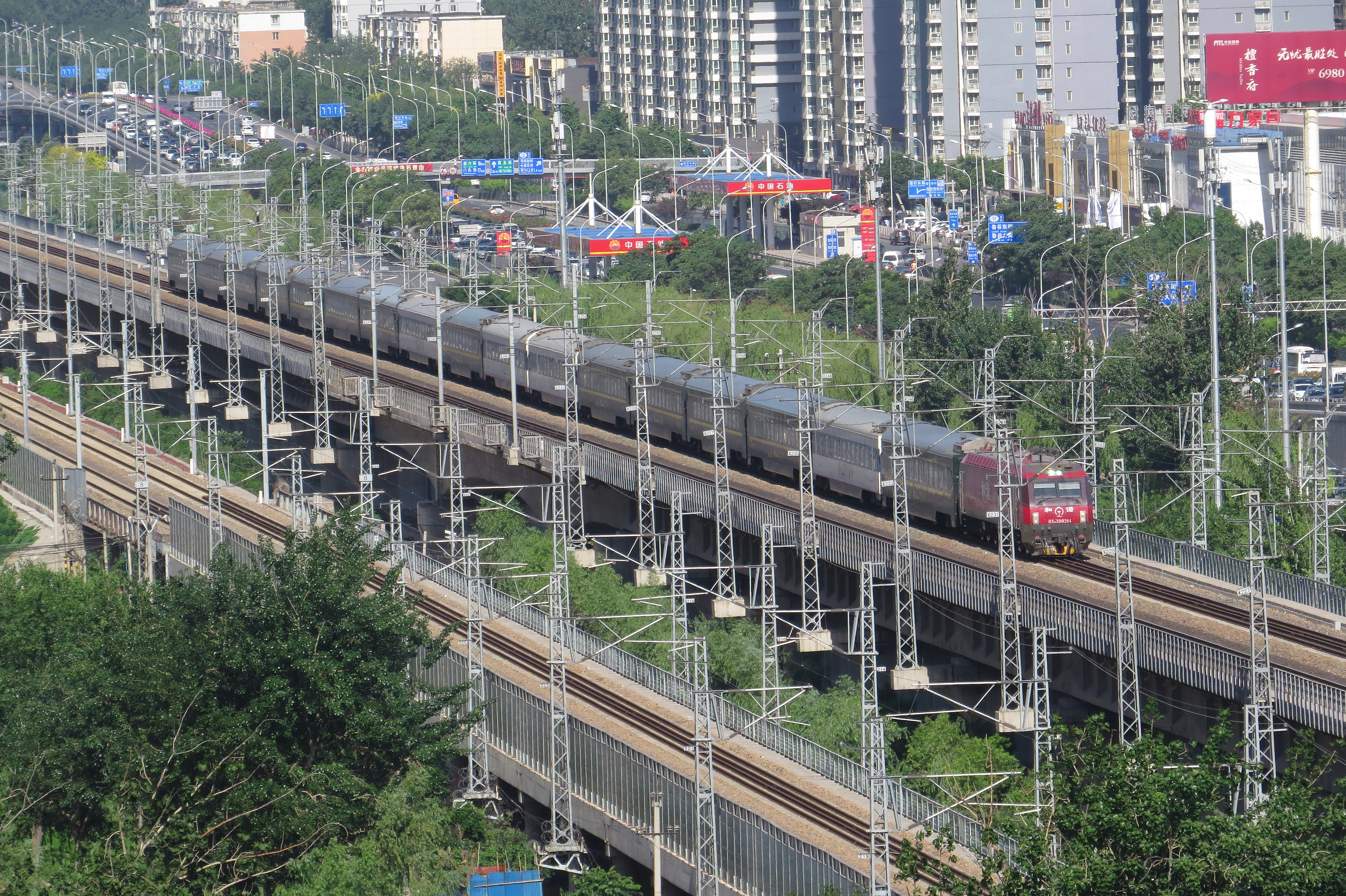 Z278 from Yinchuan, hauled by HXD3D-0284.